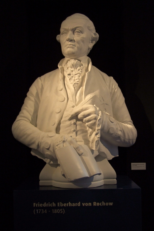 bust of Friedrich Eberhard von Rochow in Schloss Reckahn